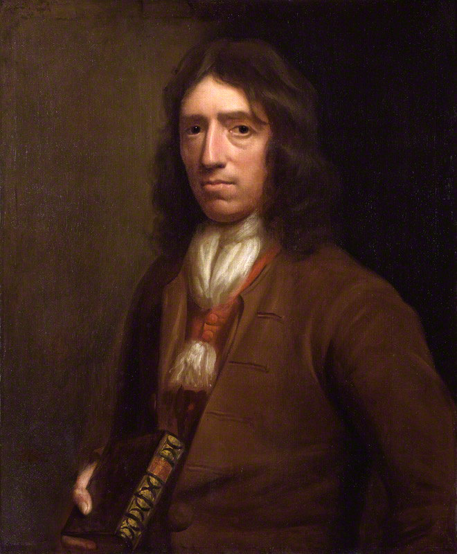 William Dampier portrait, holding his book